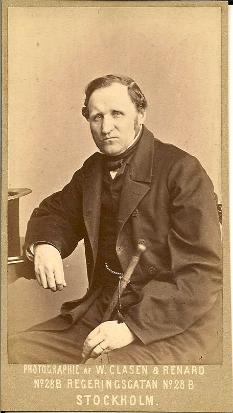 Swedish politician from late nineteenth century